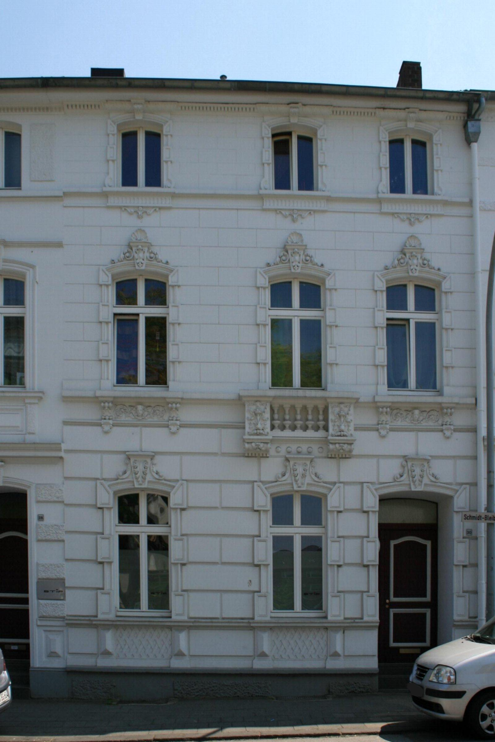 Cultural heritage monument No. Sch 018 in Mönchengladbach